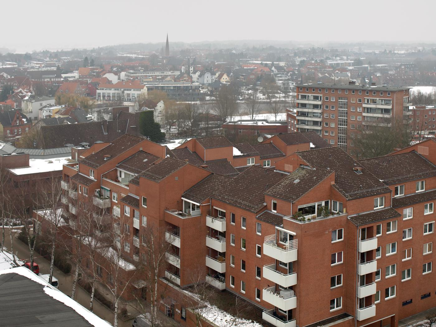 Wedel (Schleswig-Holstein, Germany), View from the water tower, photo 2011